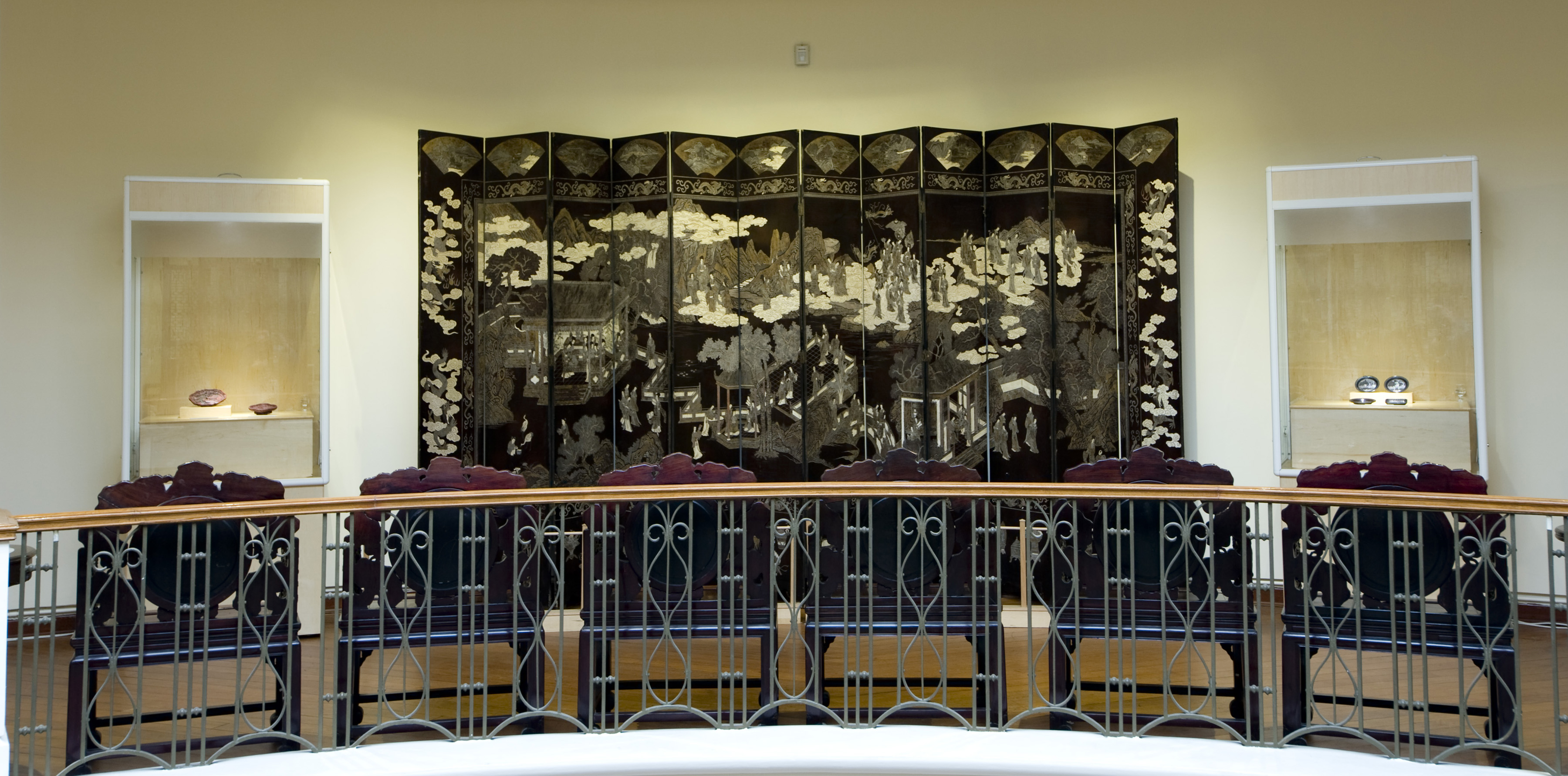 清晚期 黑砌漆眾仙赴西王母蟠桃壽屏風十二扇